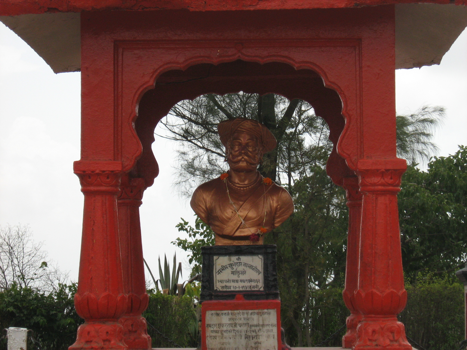 A memorial commemorating the Maratha Sardar Tanaji Malusare atop the Sinhgad Fort near the town of Pune (India). Despite being vastly outnumbered against the Mughal Army (500 as against 5000), this brave Maratha Sardar led his forces to a decisive victory in the 'Battle of Sinhgad' (1670 CE)